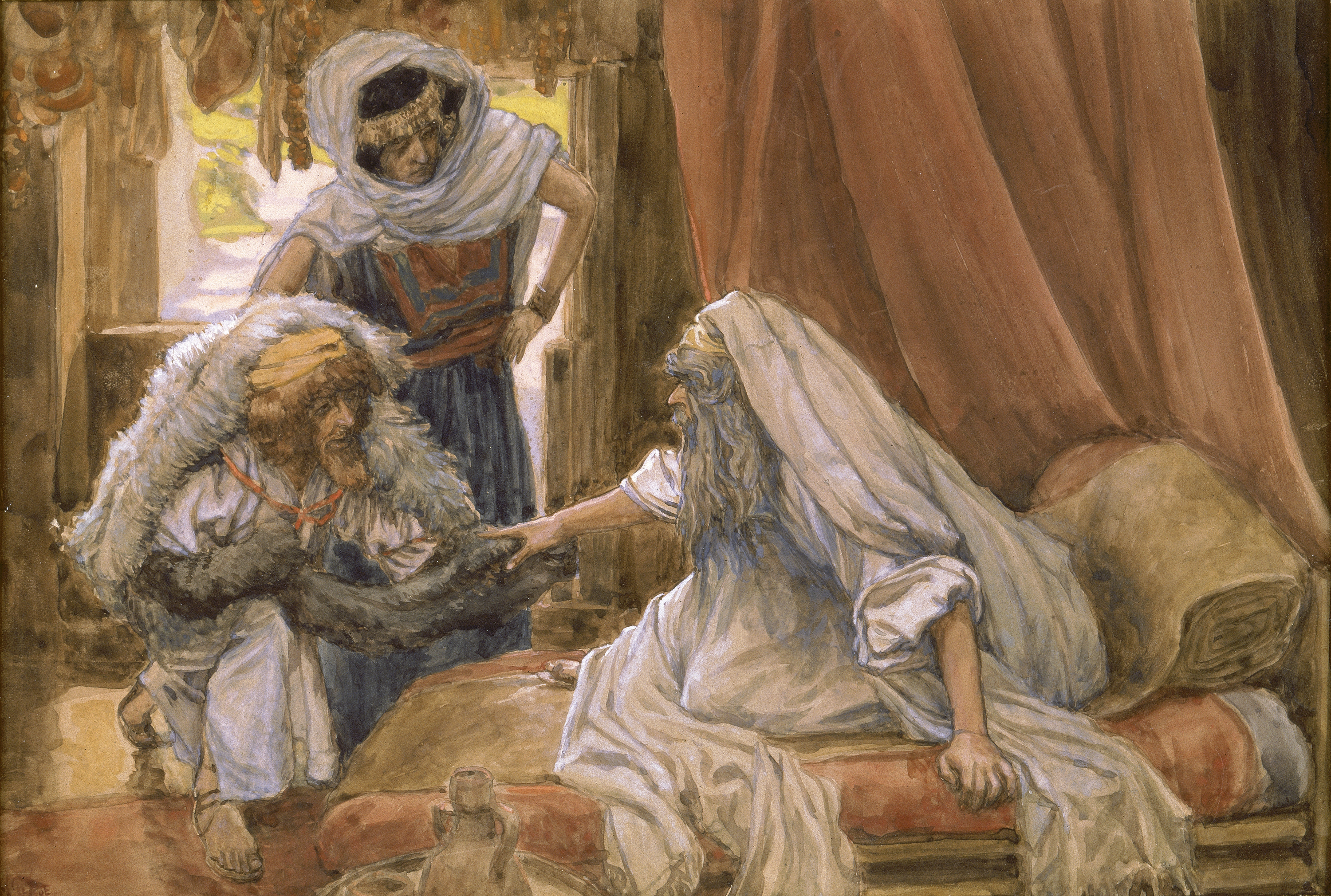 Jacob Deceives Isaac, c. 1896-1902, by James Jacques Joseph Tissot (French, 1836-1902), gouache on board, 6 5/8 x 9 7/8 in. (16.9 x 25.1 cm), at the Jewish Museum, New York